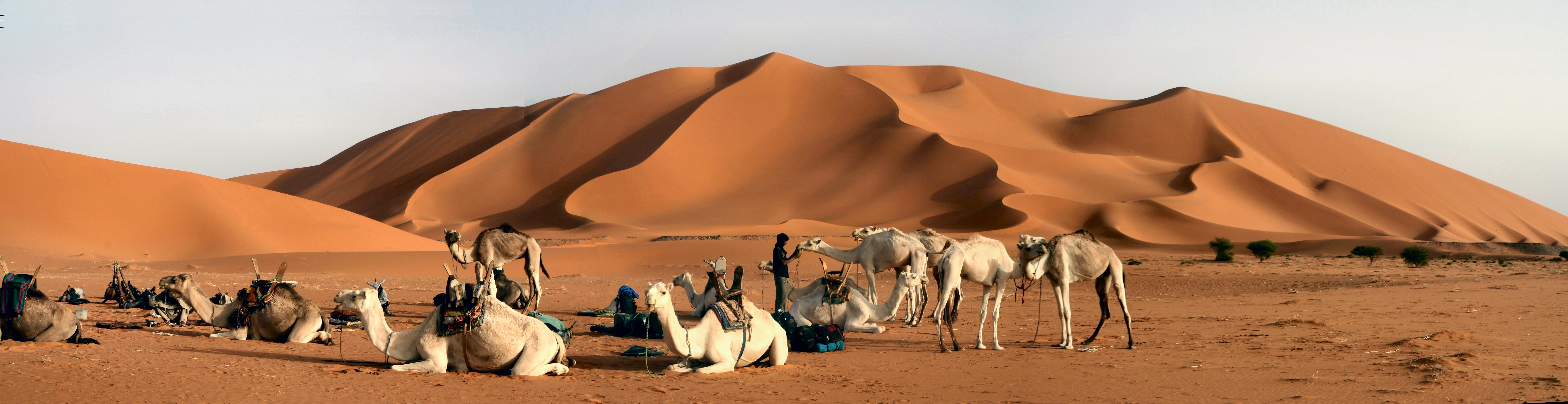 Dunes in the Adrar Ahnet, Algeria